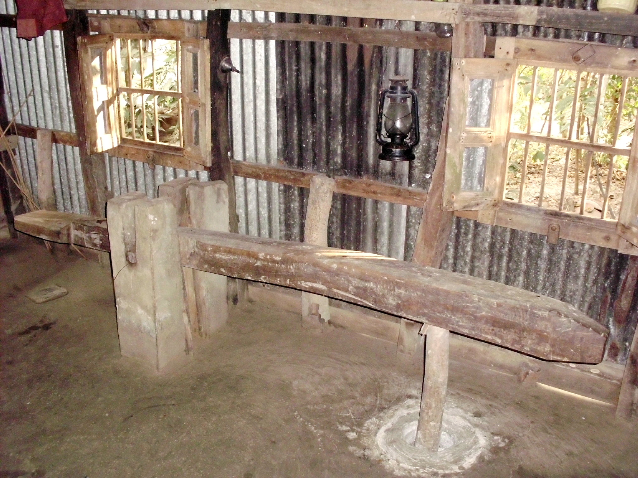 Dheki at Sandwip by Rahat Rahim